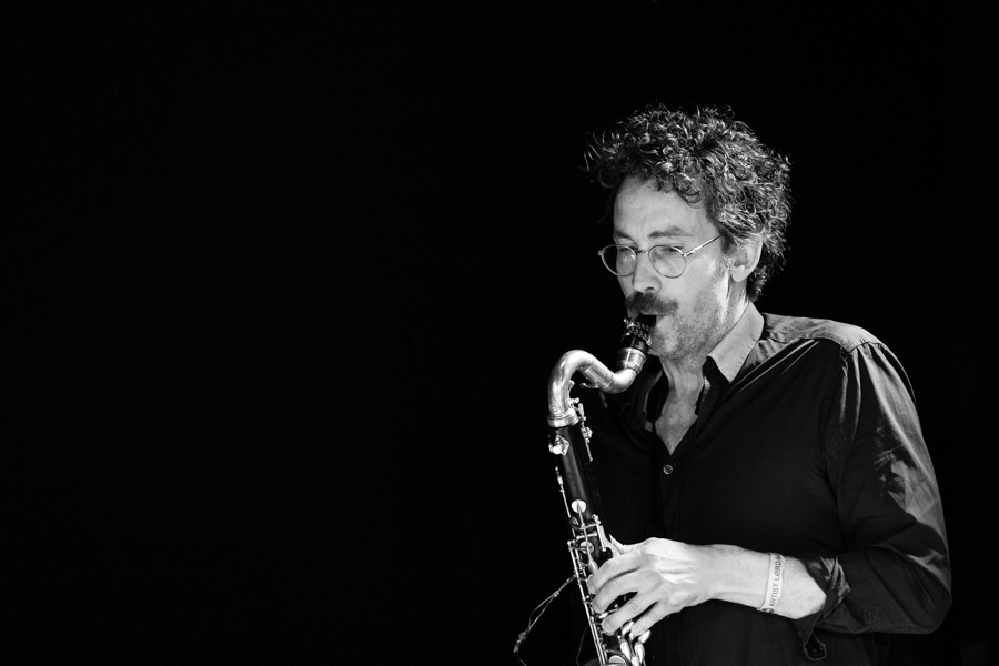 Per Texas Johansson in a concert with Trondheim Jazz Orchestra + Atomic in Energimølla. The concert was part of Kongsberg Jazzfestival and took place on 03. July 2019 in Kongsberg. Lineup:Magnus Broo (trumpet)Fredrik Ljungkvist (saxophone and clarinet)Håvard Wiik (piano)Ingebrigt Håker Flaten (double bass)Hans Hulbækmo (drums)Signe Krunderup Emmeluth (alto saxophone)Per Texas Johansson (bass clarinet)Hild Sofie Tafjord (french horn)Ole Jørgen Melhus (trombone)Ola Kvernberg (violin)Lene Grenager (cello)Kyrre Laastad (drums and percussion)